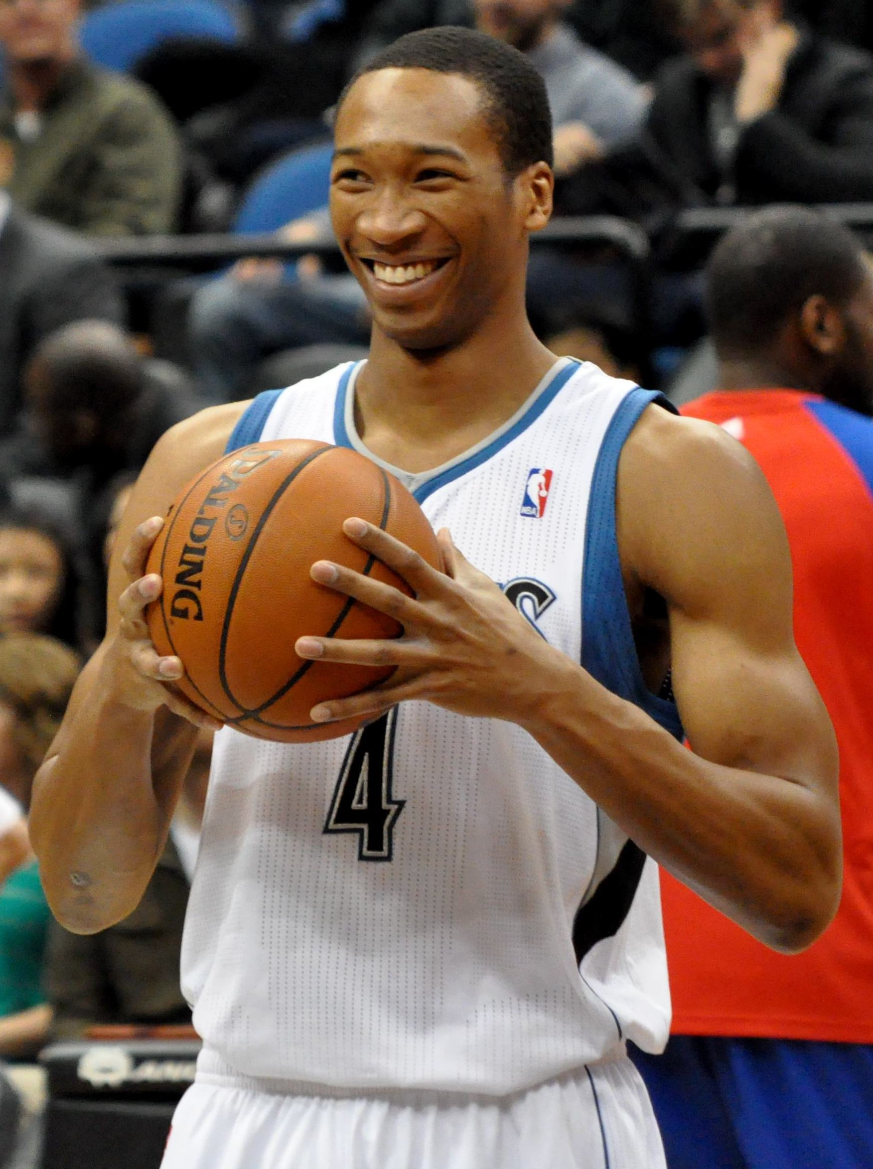 Wesley Johnson of the Minnesota Timberwolves